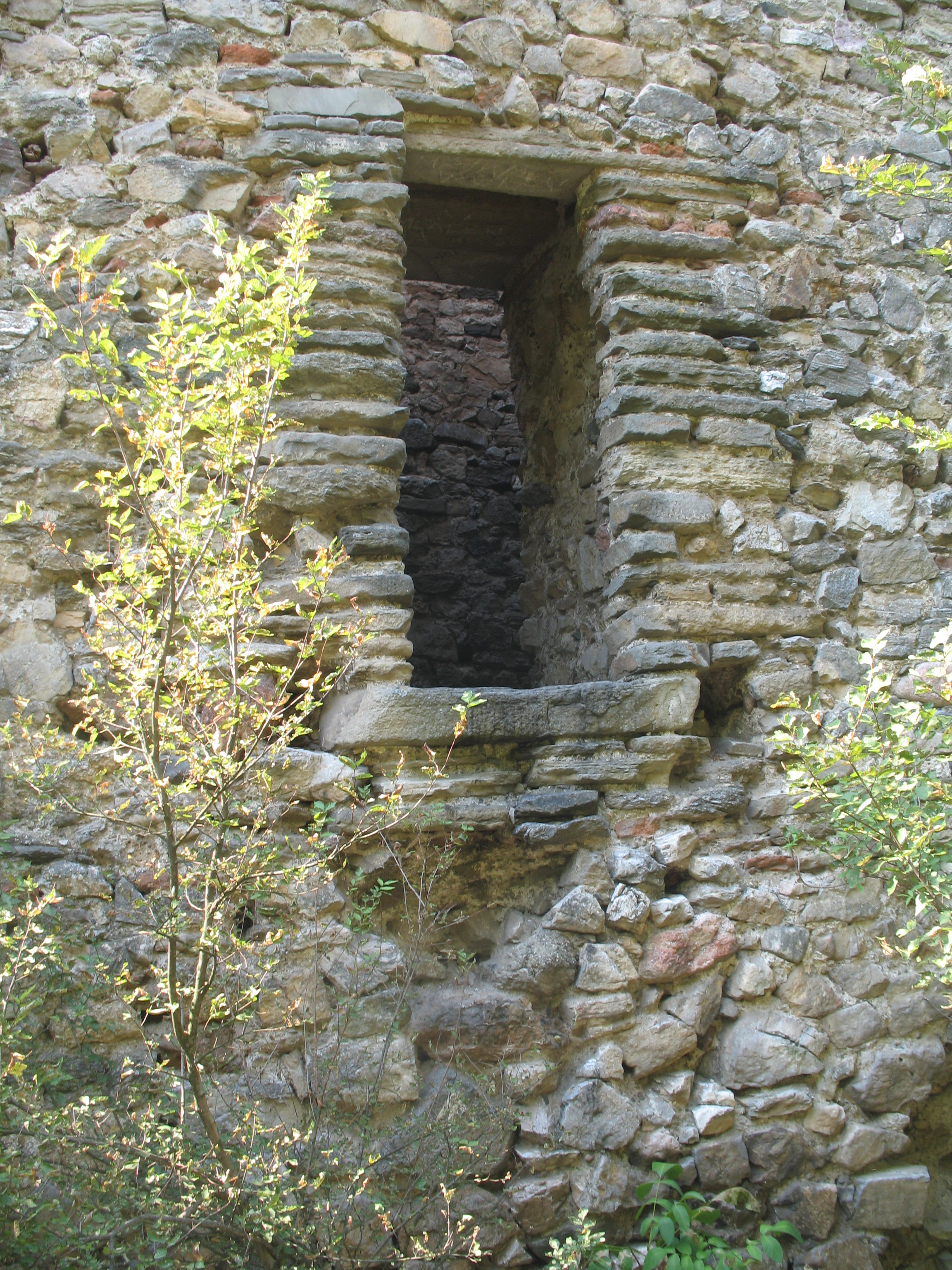 "Hisar" in Prokuplje, entrance to Jug Bogdans tower